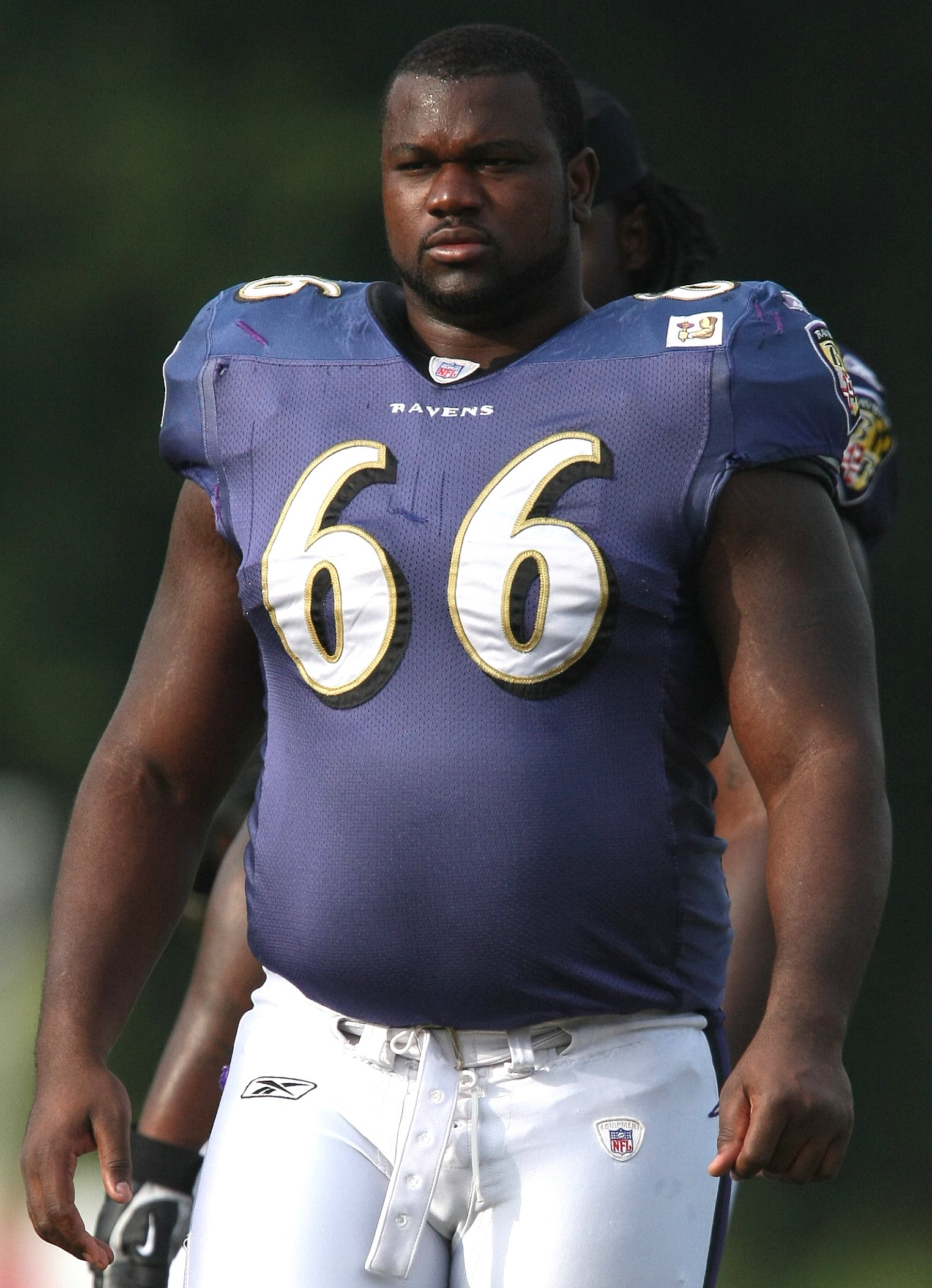 Ben Grubbs at the Ravens 2009 Training Camp.